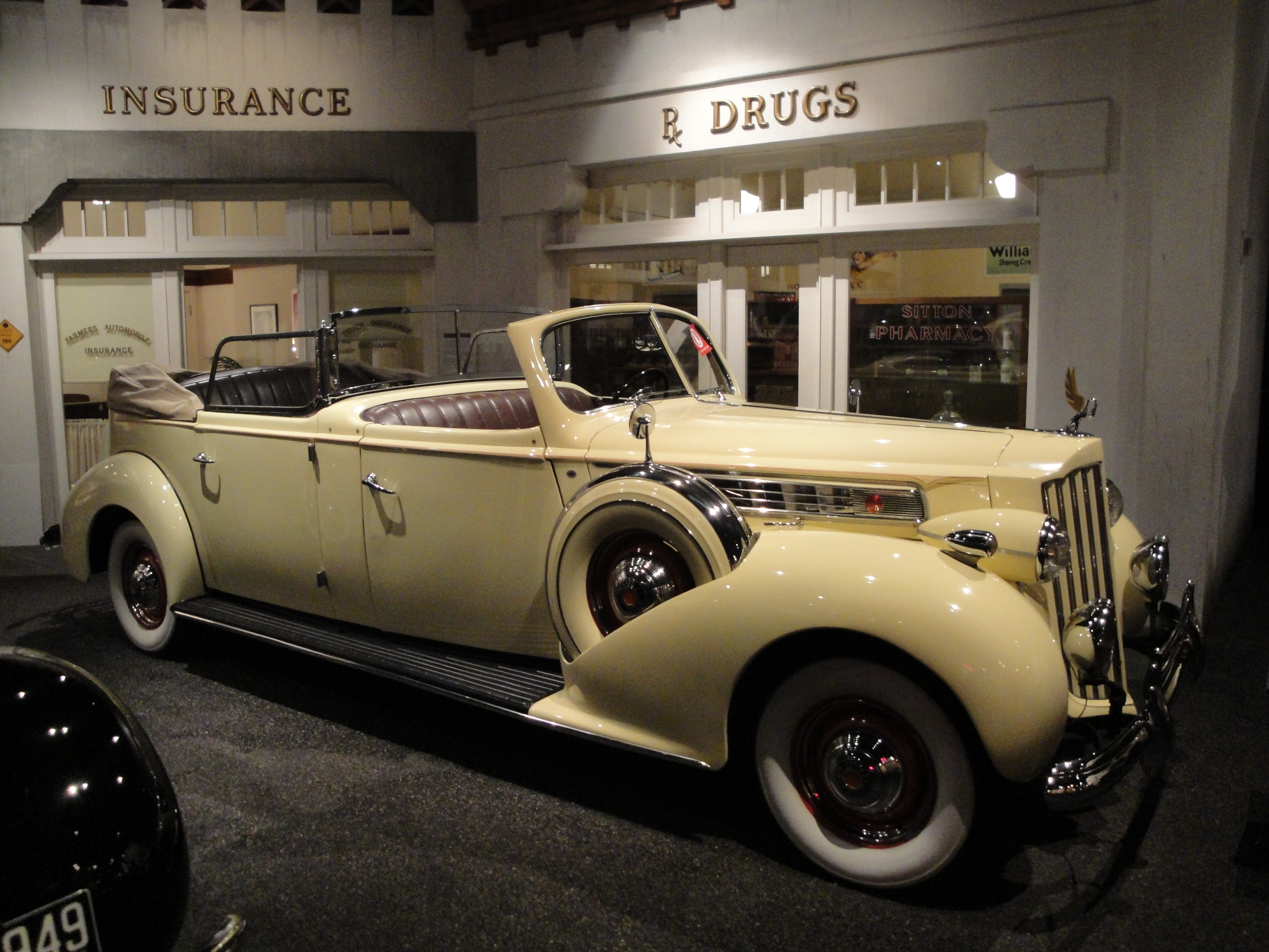 Packard Super Eight Phaeton by Derham (1939), pre-owned by Juan and Eva Perón